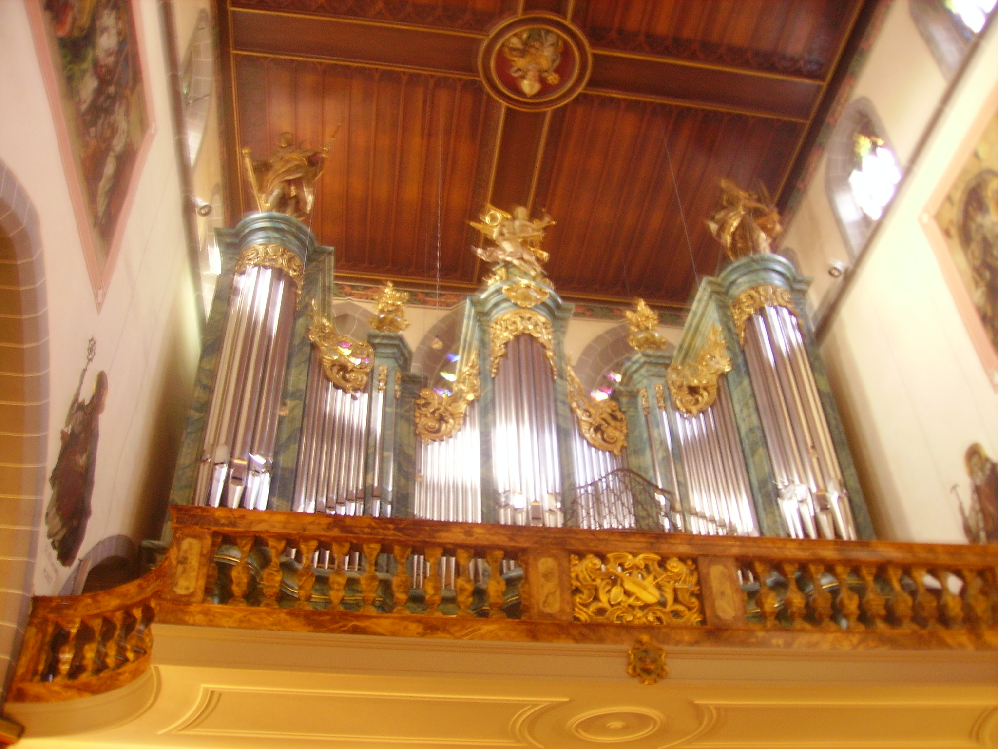 Organ of the catholic Church St. Stephan, Constance